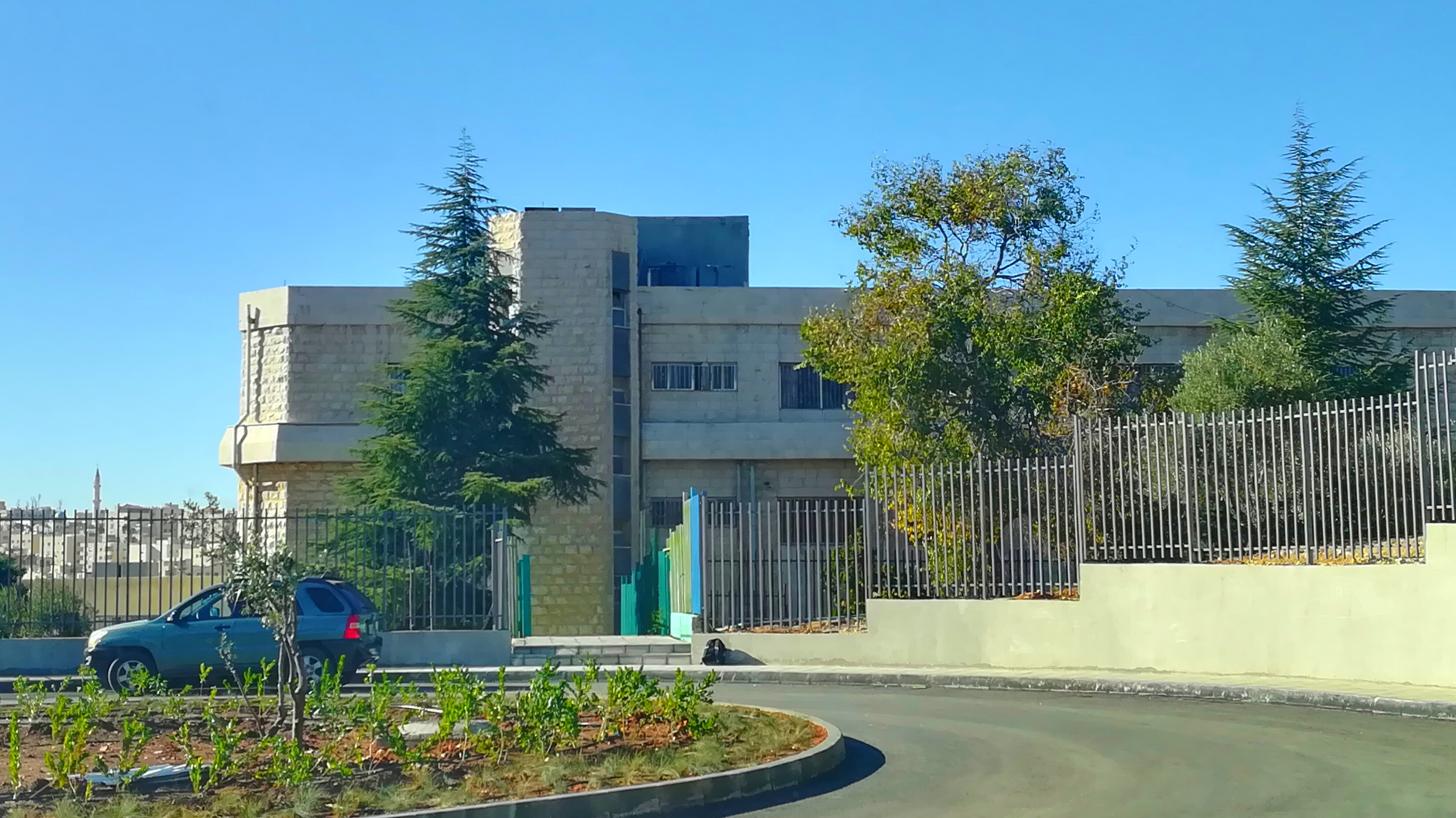 University Model School in University of Jordan, Amman